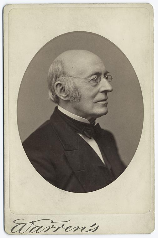 Portrait of abolitionist William Lloyd Garrison